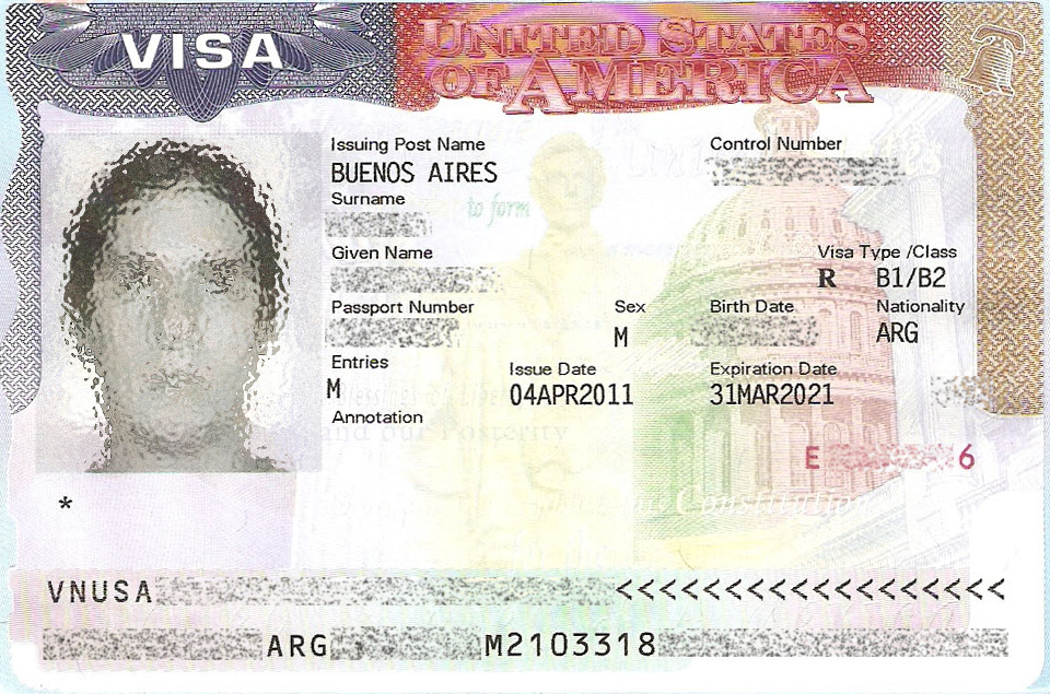 USA B1/B2 (tourist) visa, issued in Buenos Aires, Argentina.